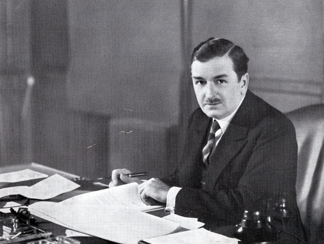 First official photograph of Maurice Duplessis as Prime minister of Quebec in 1936. [1] Cropped versions of the photograph were also used in advertisements by the National Union.